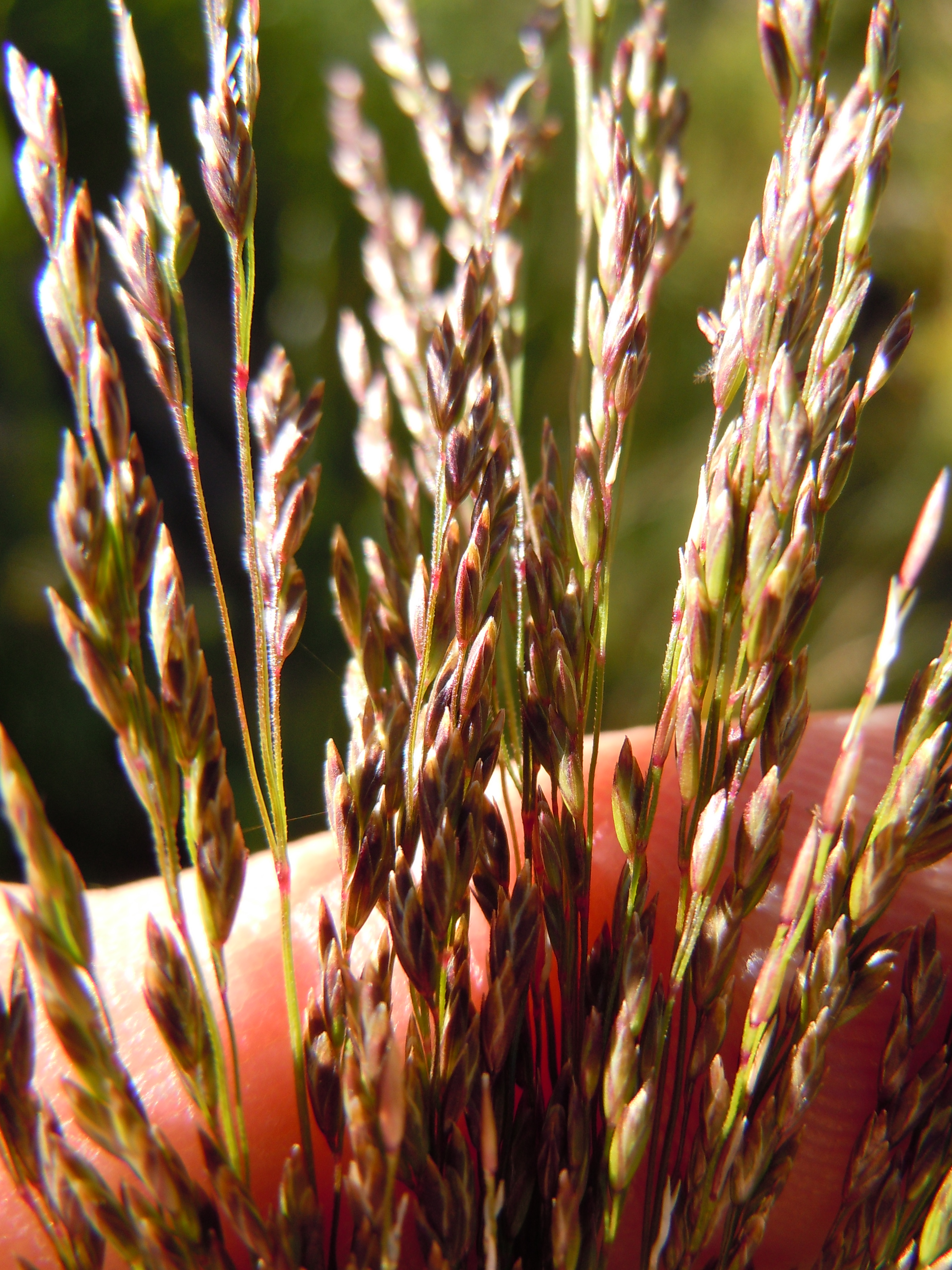 Inhabiting a roadside stream near Hyalite Reservoir, Puccinellia is very Poa-like (e.g., Poa secunda or Poa palustris) except for its relatively blunt lemma tips, spikelets mostly appressed to inflorescence rachises that are distinctly scabrous (much more so than Poa species).